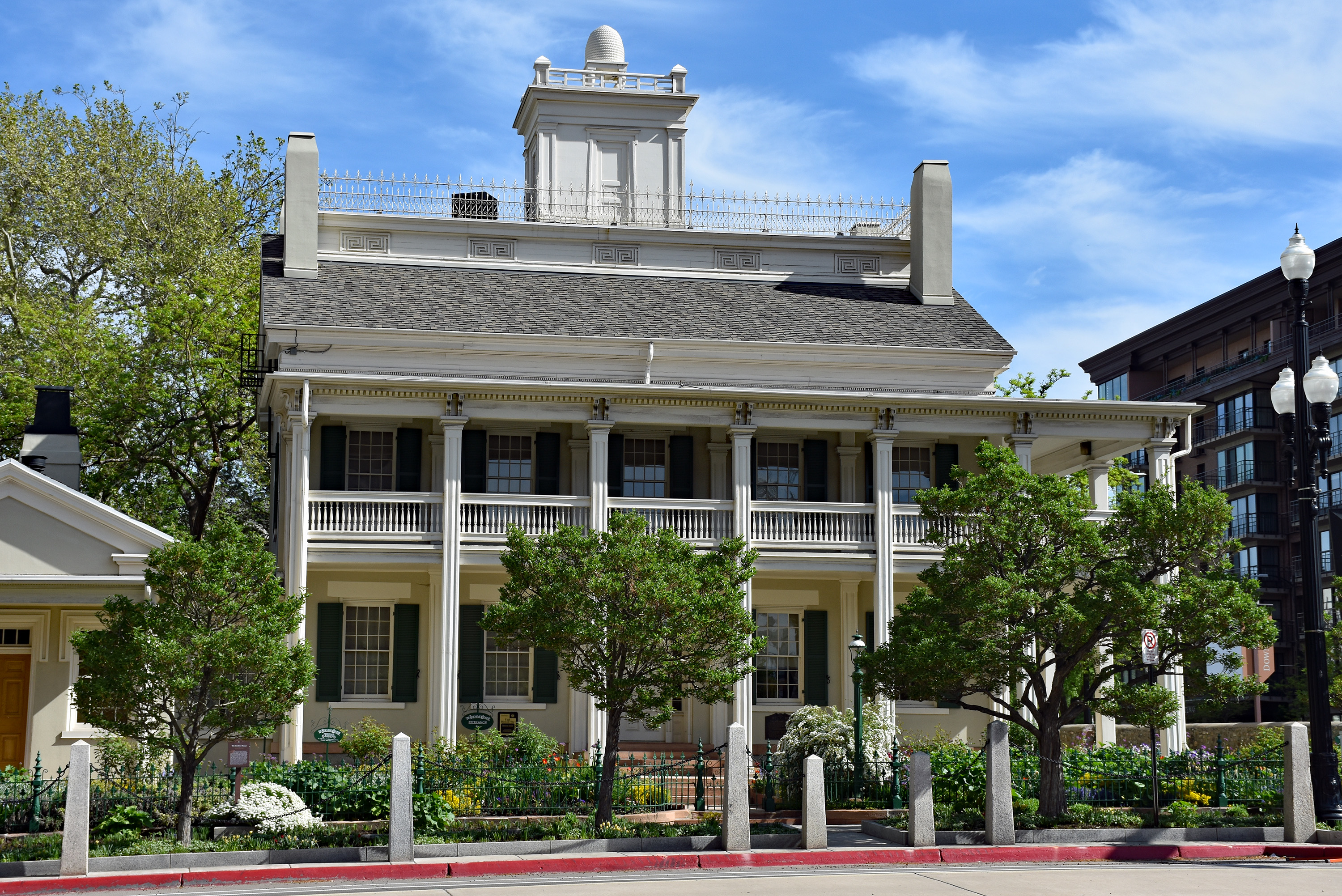 A view of the front (south side) of Brigham Young's Beehive House in downtown Salt Lake City, Utah.